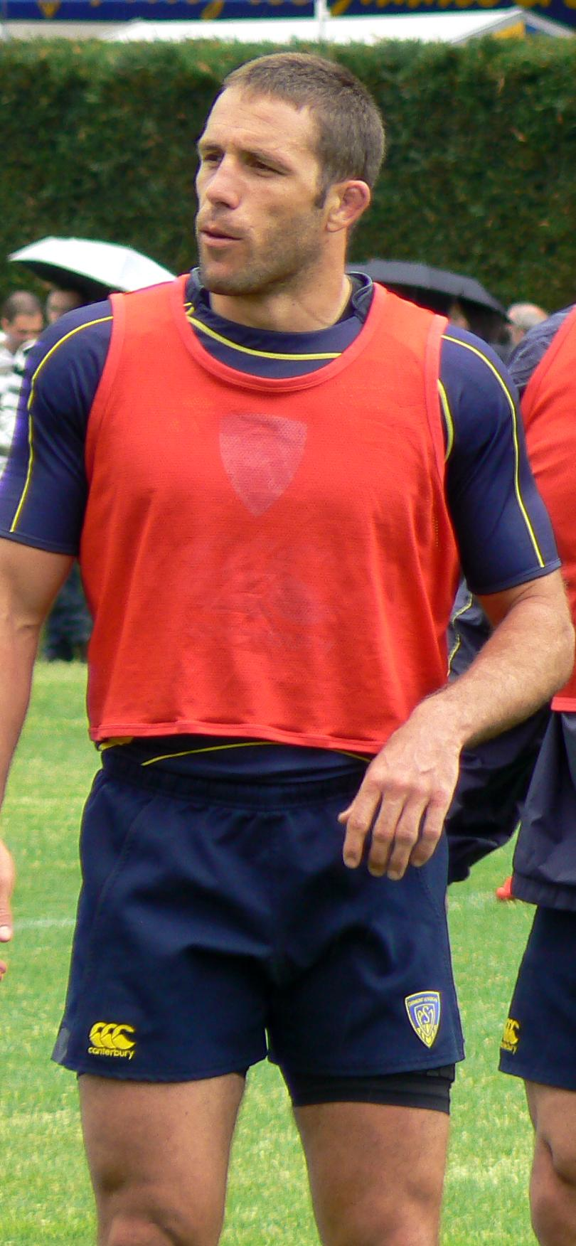 The french rugbyman Alexandre Audebert with ASM Clermont Auvergne.